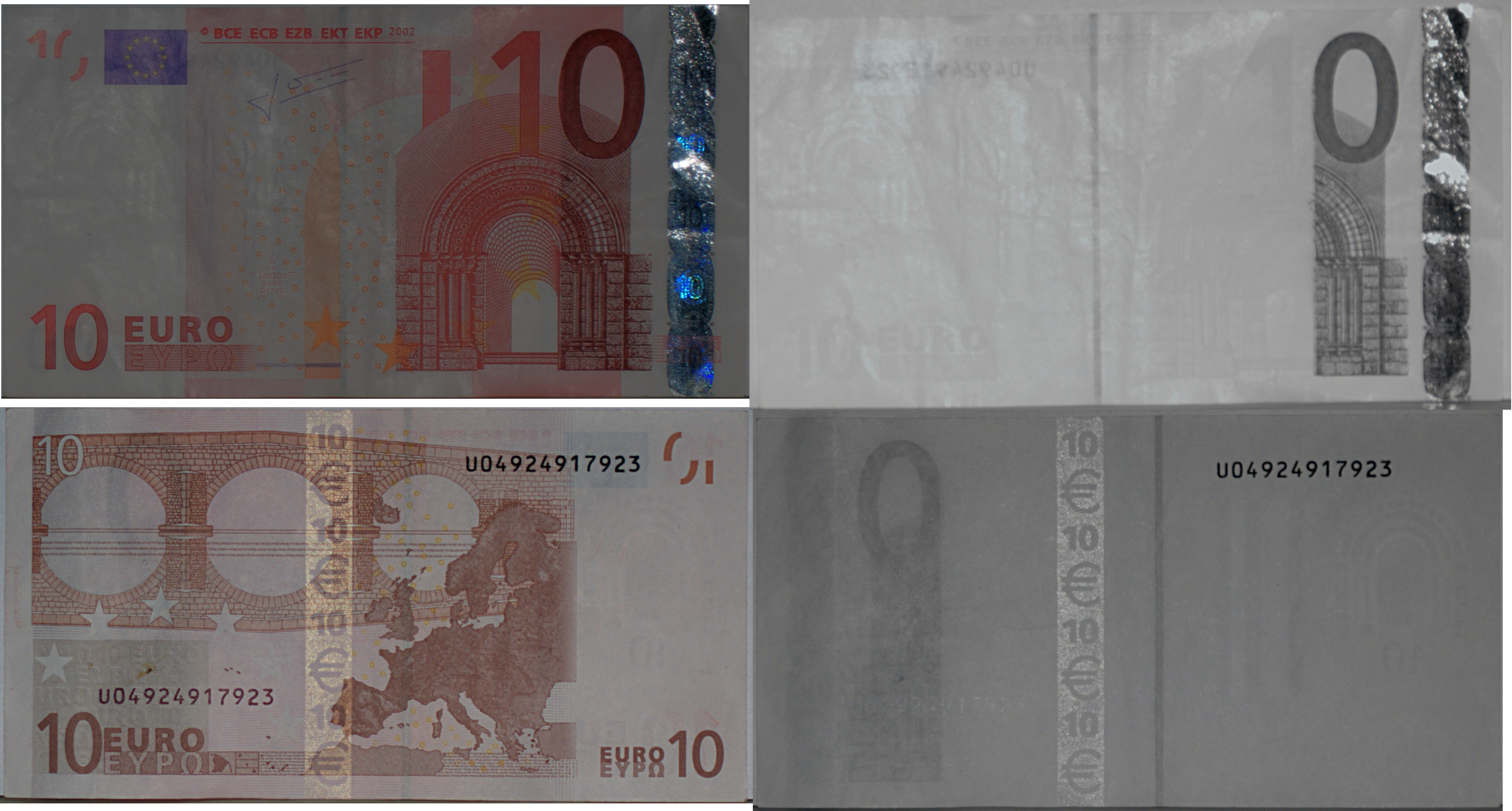 Infrared photografies of 10 euros banknotes